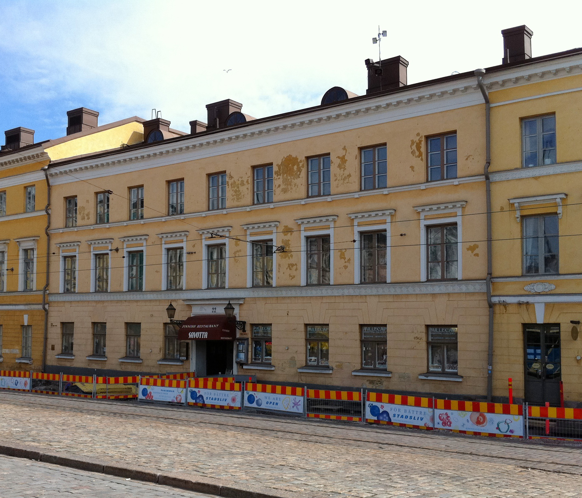 Burtz House, Aleksanterinkatu 22, Senaatintori, Helsinki